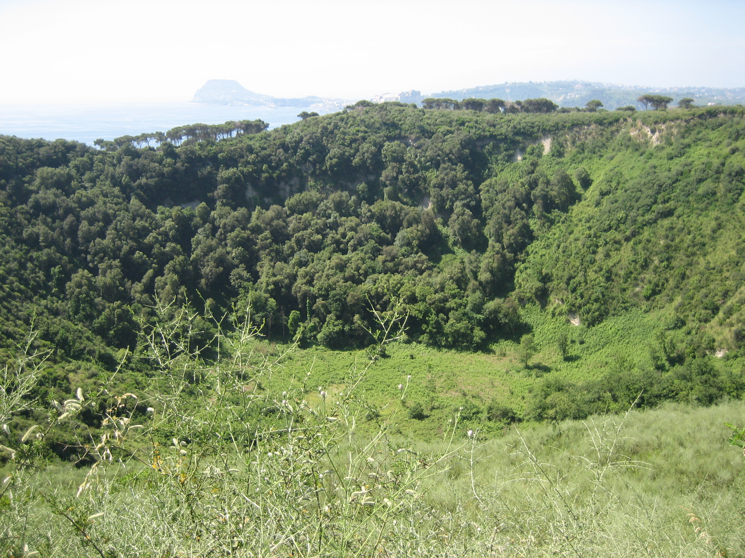 Crater of Monto Nuovo near Pozzuoli, Italy